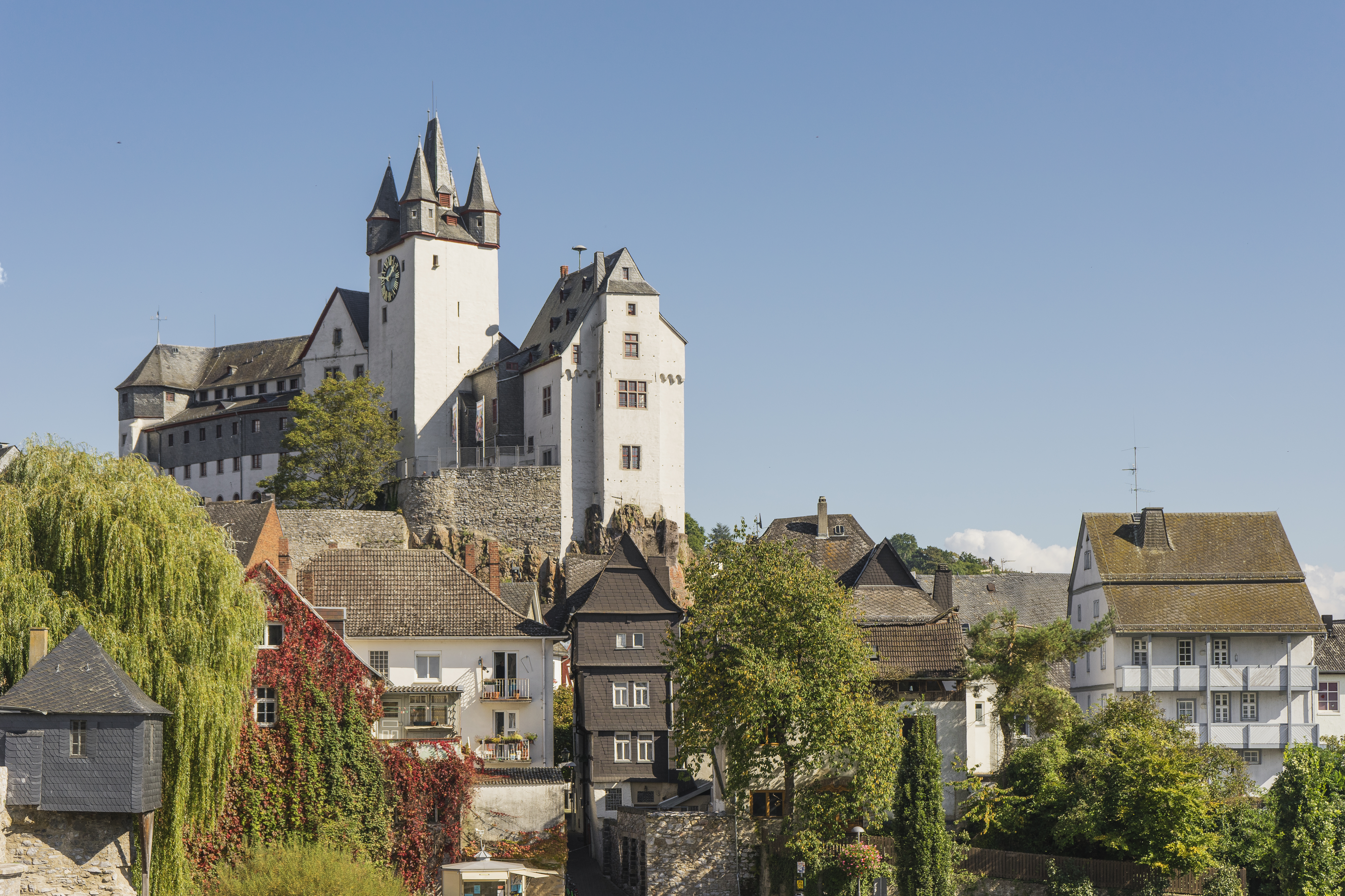 Count Castle Diez